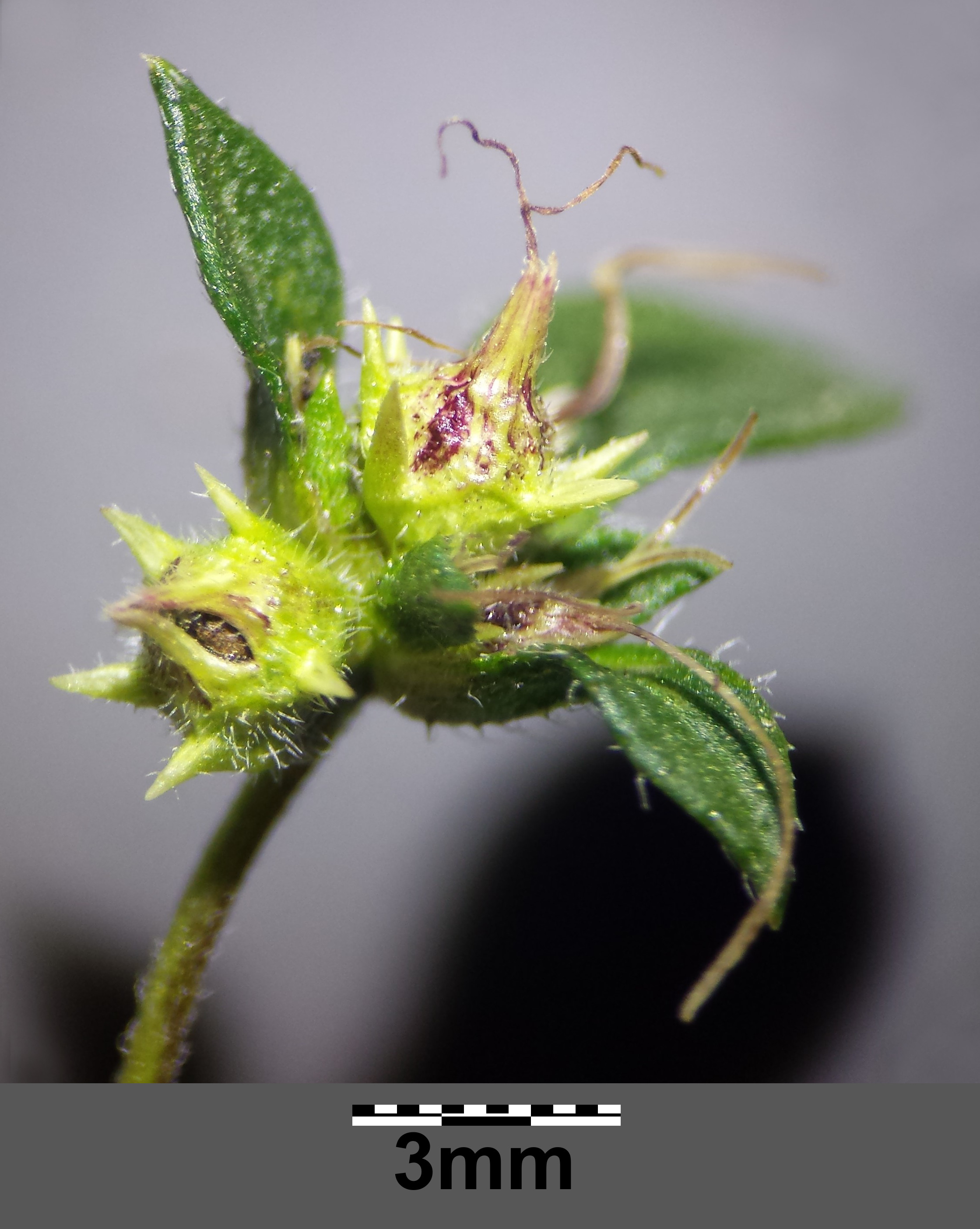 Infructescence Taxonym: Ambrosia artemisiifolia ss Fischer et al. EfÖLS 2008 ISBN 978-3-85474-187-9 Location: Floridsdorf rail station, Vienna-Floridsdorf - ca. 160 m a.s.l. Habitat: rail ruderal area